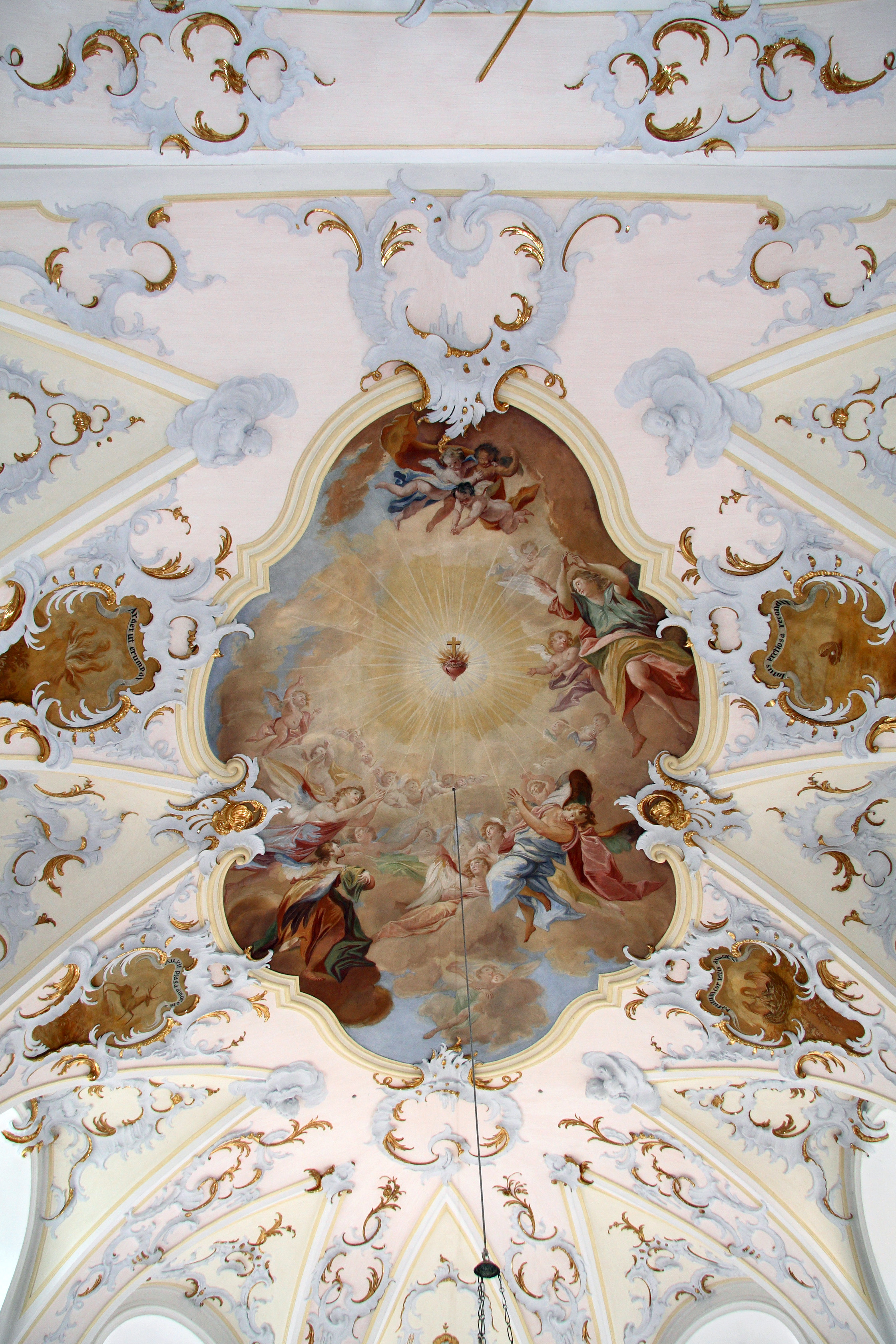 Fresco painting on the ceiling of the church of St. Vitus, Iffeldorf, Bavaria